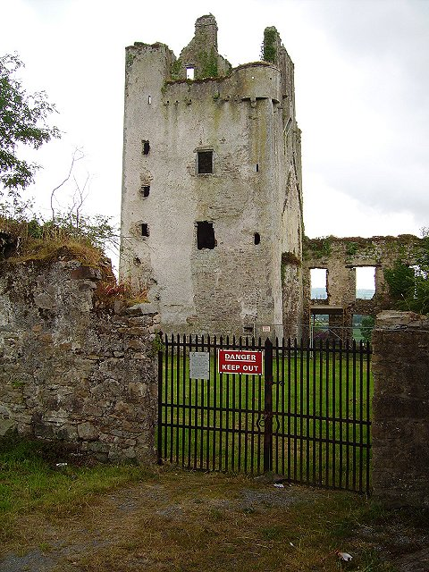 Kilcash Castle Tower house , a fortress of the Butler family.